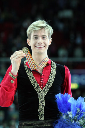 Jeffrey Buttle (1st) at the 2008 World Championships